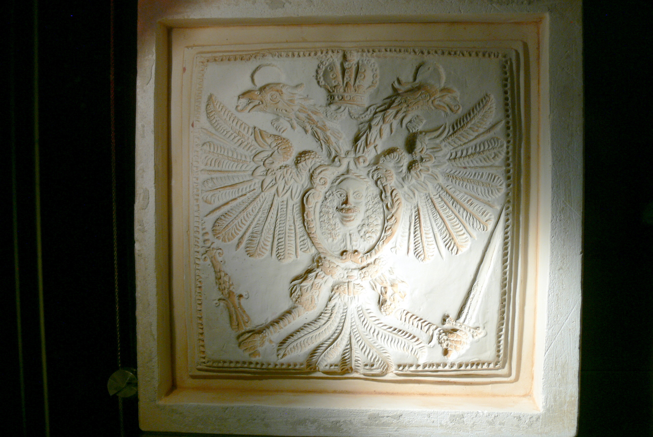 Oberhausmuseum ( Passau ). Stove tile ( 17th century ) showing the coats of arms of the Holy Roman Empire.